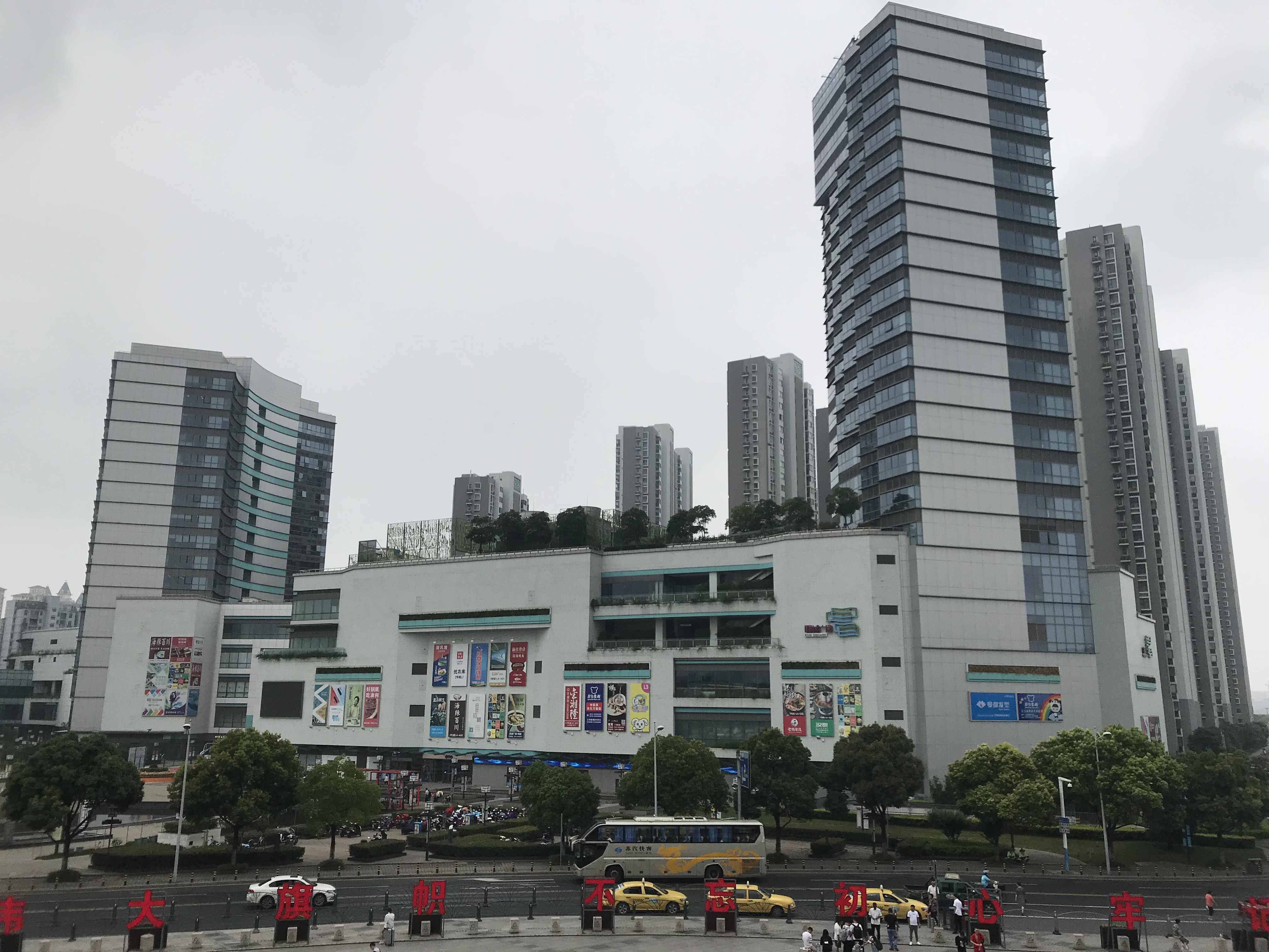 201907 Kuncheng Plaza, Kunshan